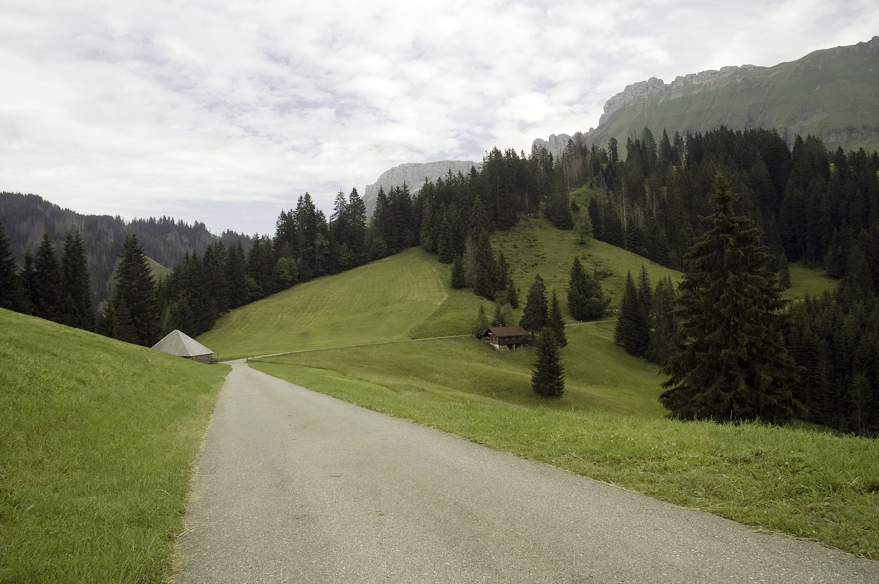 View from Wittenfärren near Marbach LU to the north part of Schrattenflue, Entlebuch region, Switzerland